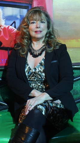 Marneen Fields at the 2016 Fitzroy Film Fare sitting next to the poster for her award winning "Shadows - The Musical," song produced by Stuart Epps (Elton John and Led Zeppling), and composed by David Palfreyman.